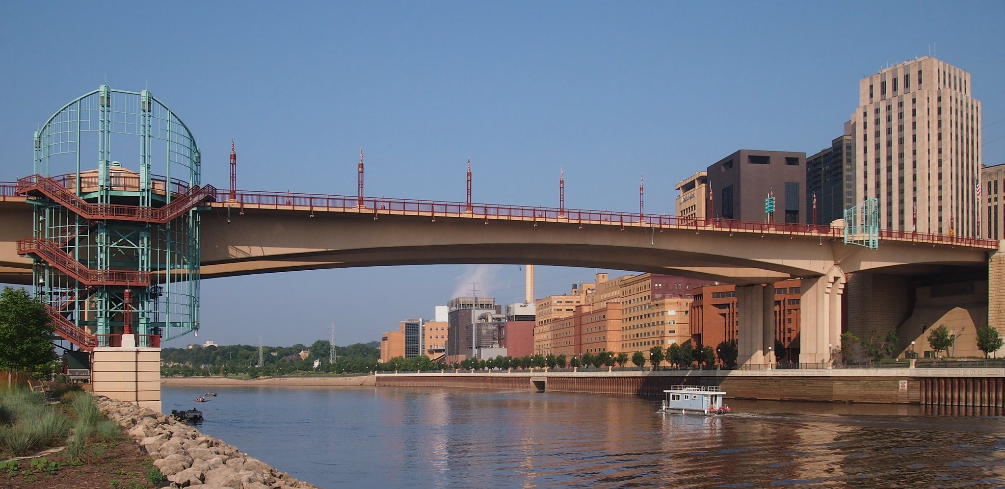 Northern spans of the Wabasha Street Bridge from Raspberry Island, St Paul, Minnesota, USA. Viewed from the east.